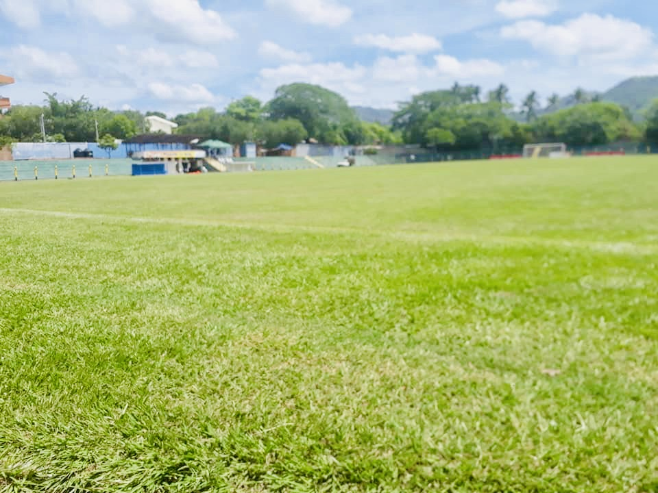 Stadium